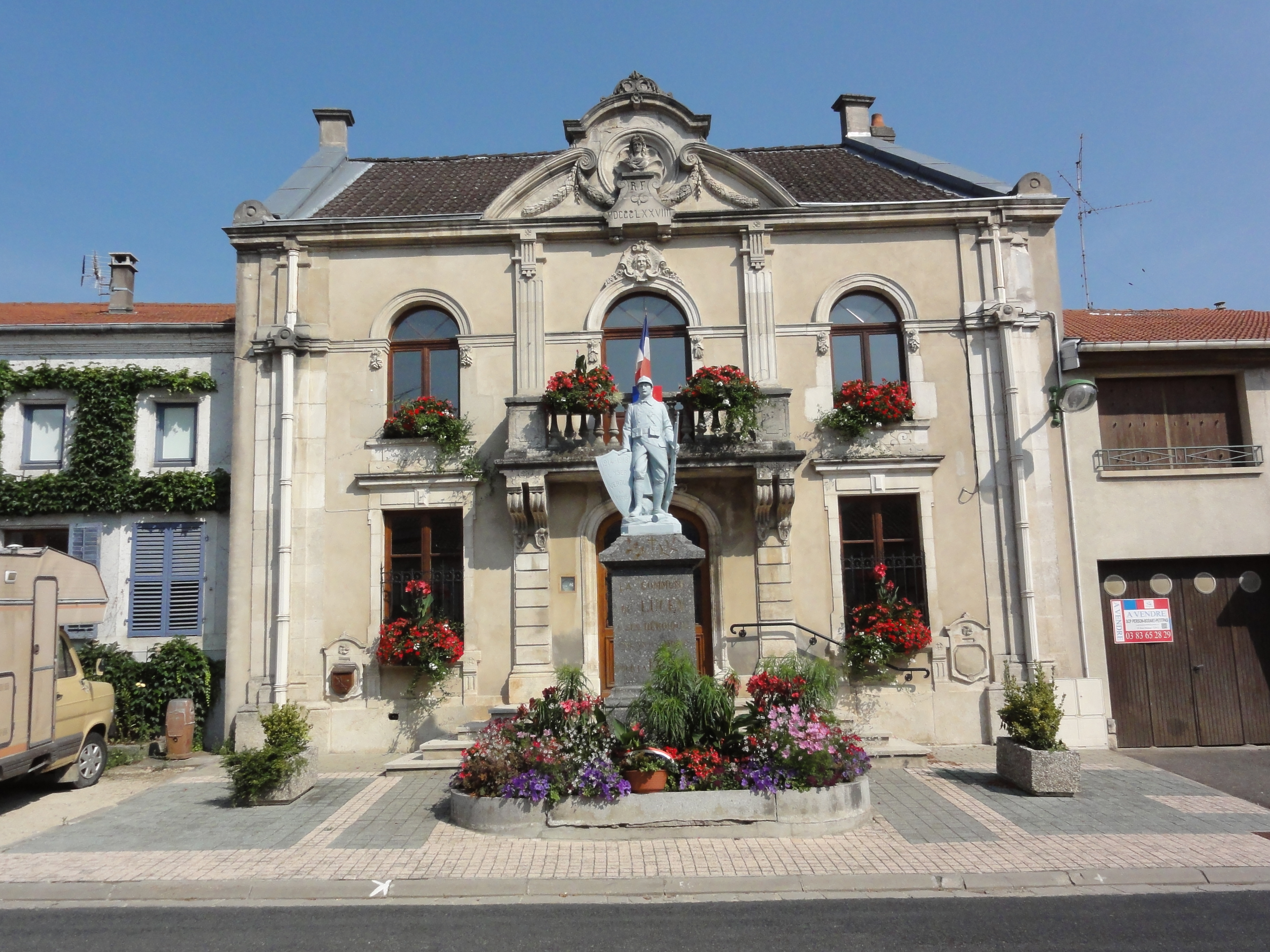 Lucey (Meurthe-et-M.) mairie et monument aux morts